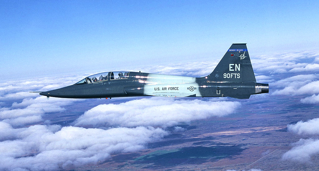 The T-38A Talon flew its last training mission at Sheppard March 1. The "A" model has being replaced with the upgraded "C" model for use in training. (U.S. Air Force photo)